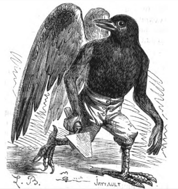 Malthas conforme, o J.A.S. Collin de Plancy, Dictionnaire Infernal. Paris: E. Plon, 1863.